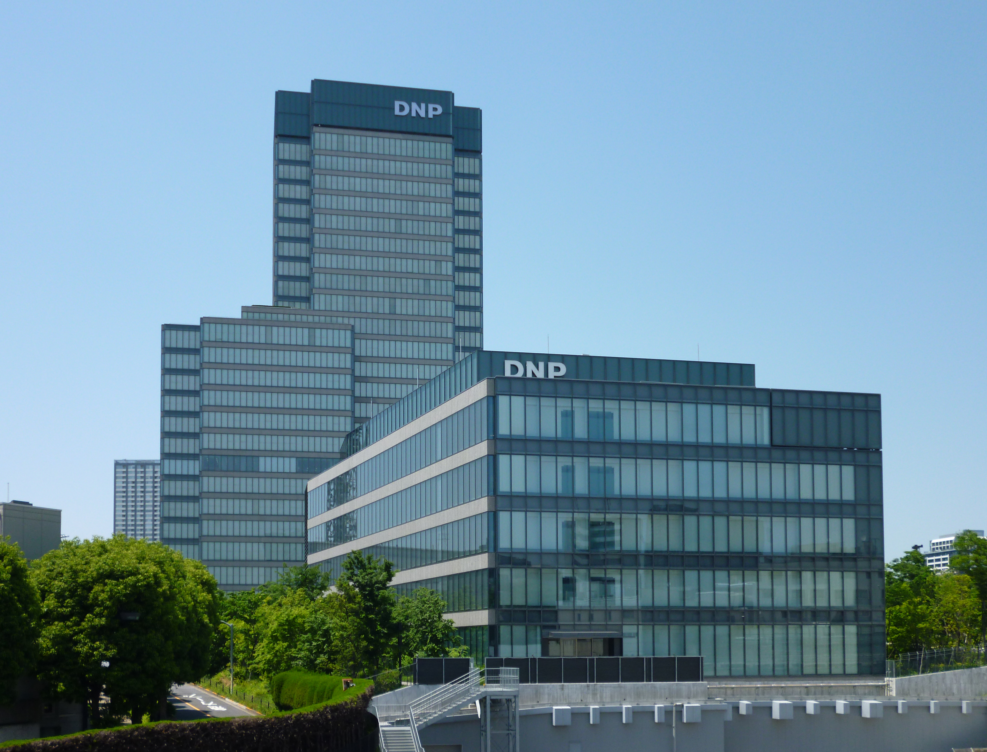 DNP Ichigaya takajō-machi building (front) and DNP Ichigaya kaga-chō building (back). The headquarters of Dai Nippon Printing Co., Ltd.